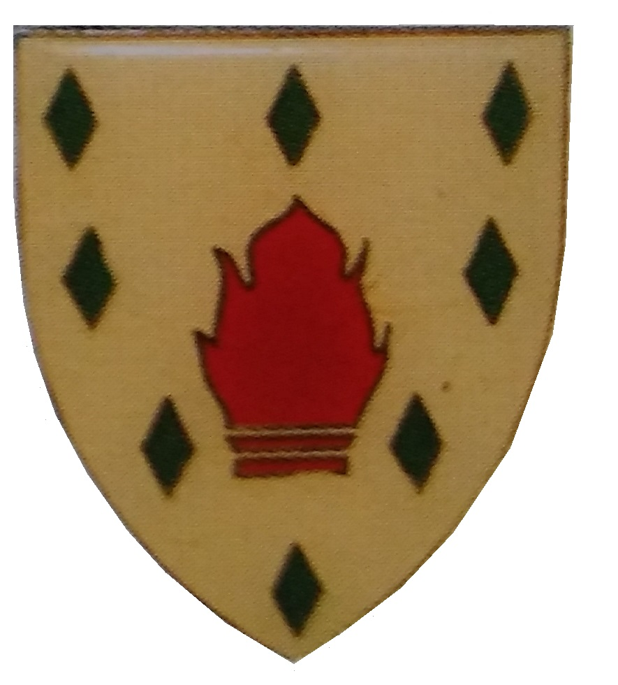 SADF 1 Special Training Unit emblem